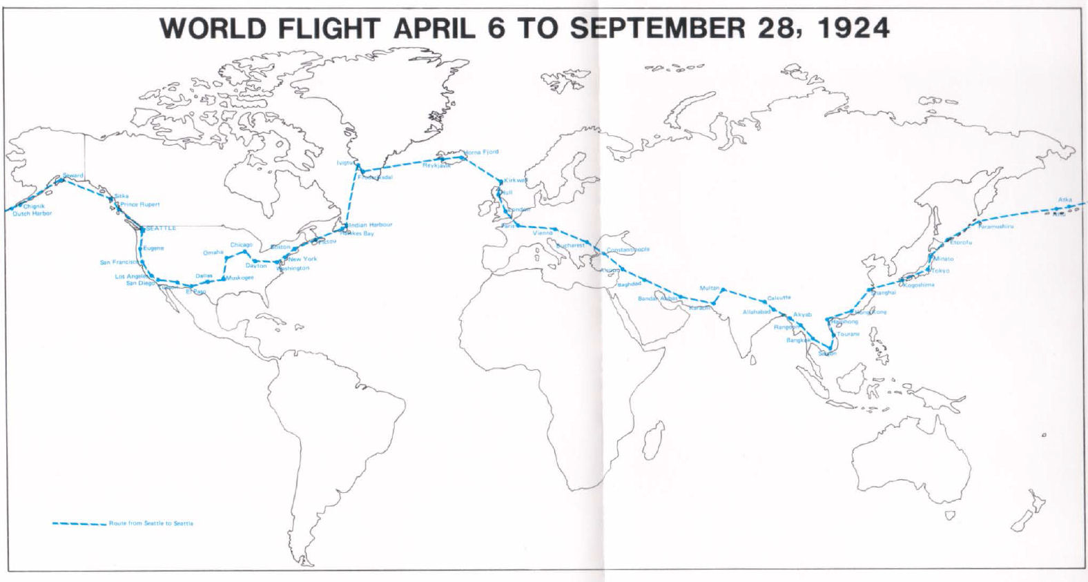 Map of 1924 Douglas World Cruiser Round The World Flight